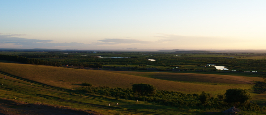 The Argun River near Bayinguogang, Evenk Autonomous Banner